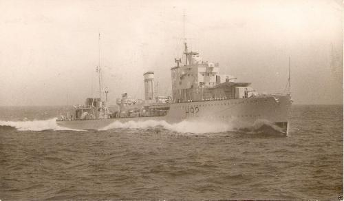 HMS Glowworm advancing.